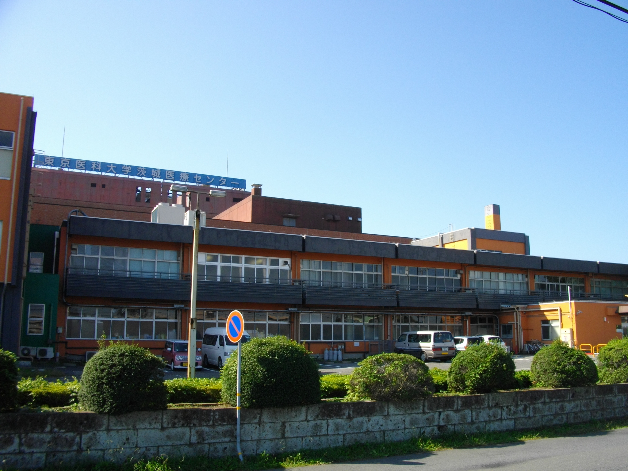 Tokyo Medical University Ibaraki Medical Center